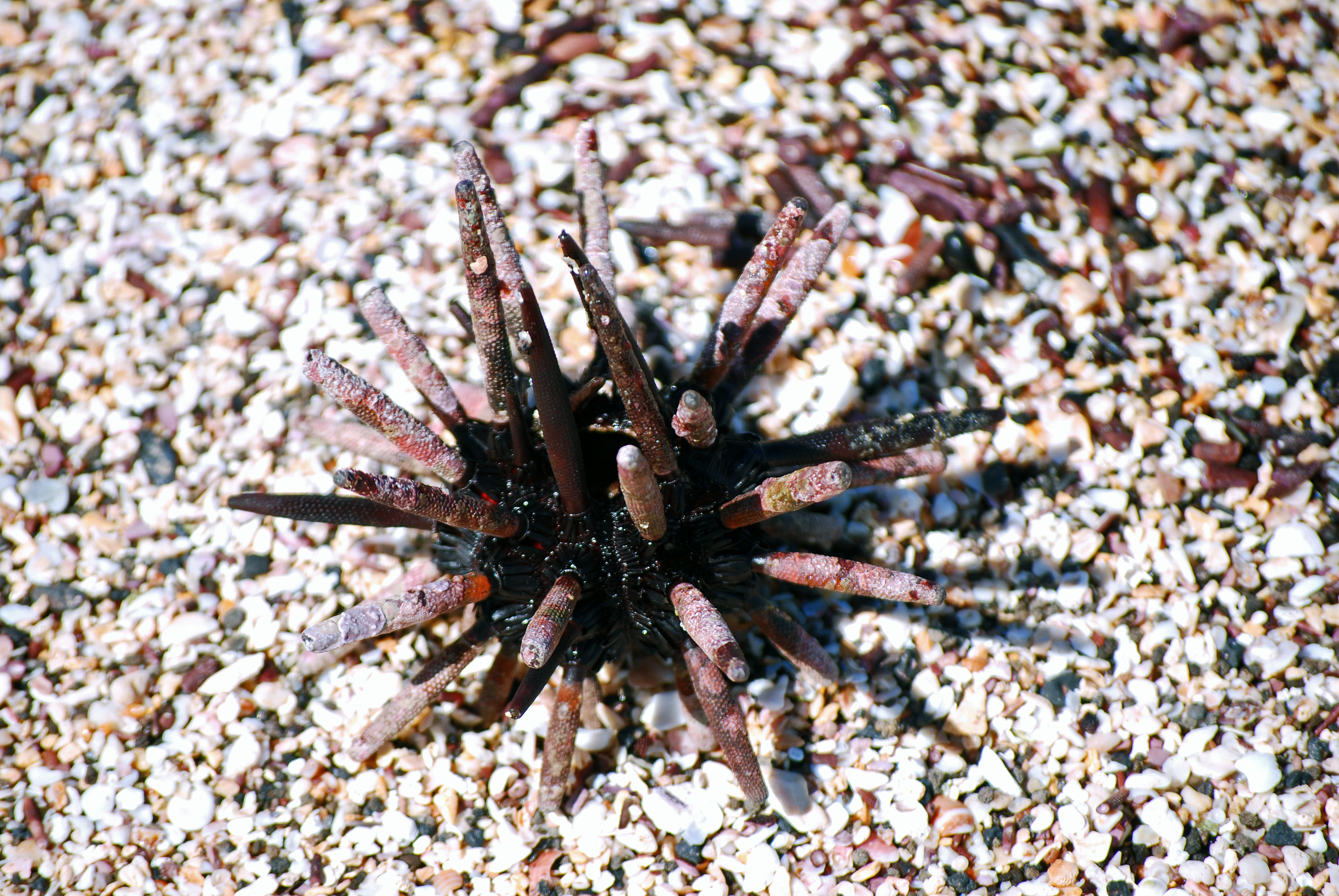 James Bay / Santiago Island (Galápagos) / Slate Pencil Urchin (Eucidris galapagensis, sometimes regarded as a subspecies of Eucidaris thouarsii).